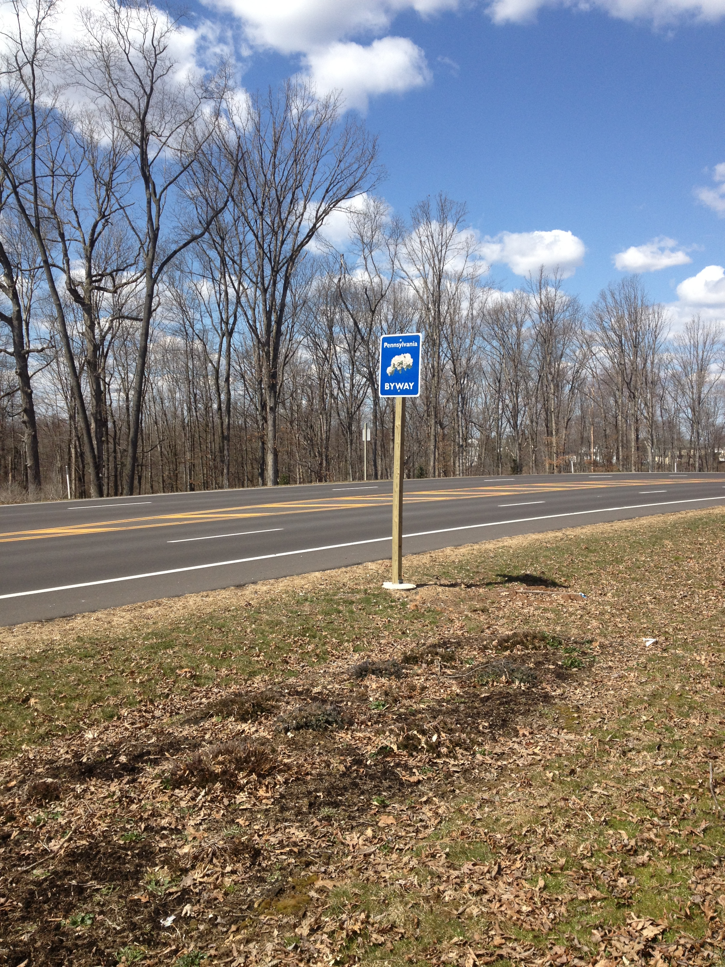 Pennsylvania Byway marker along the U.S. Route 202 parkway in Montgomery Township, Montgomery County, Pennsylvania